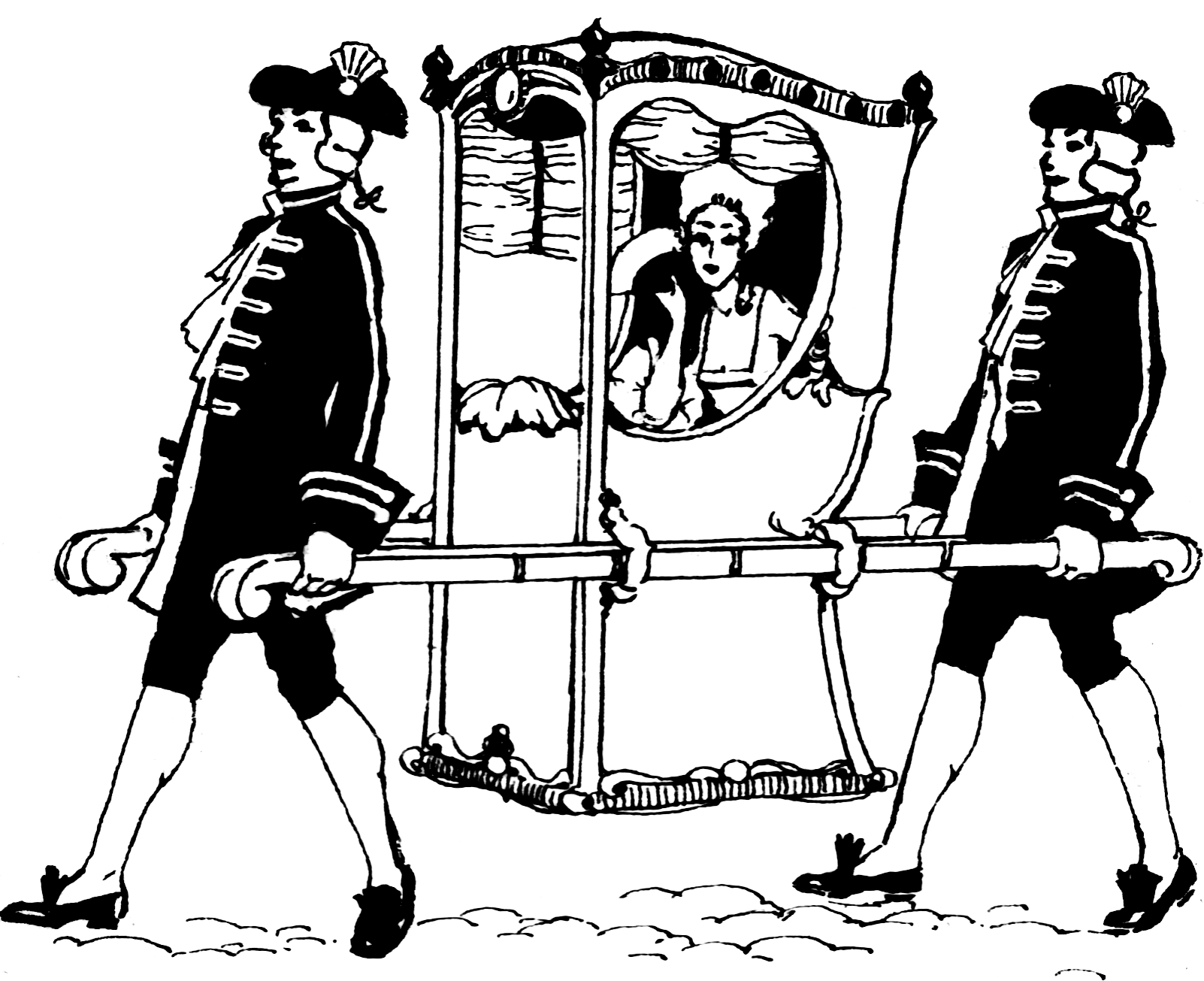 Line art of a sedan chair.